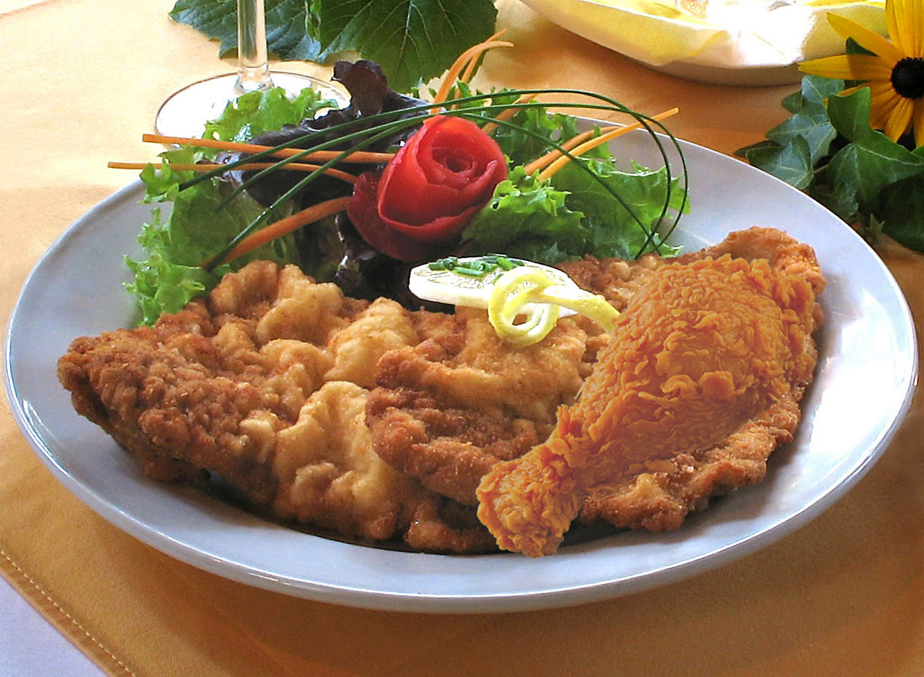 This image looks more scrumptious.